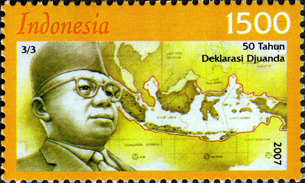 Indonesian stamp commemorating the Djuanda Declaration on Indonesia's archipelagic state.